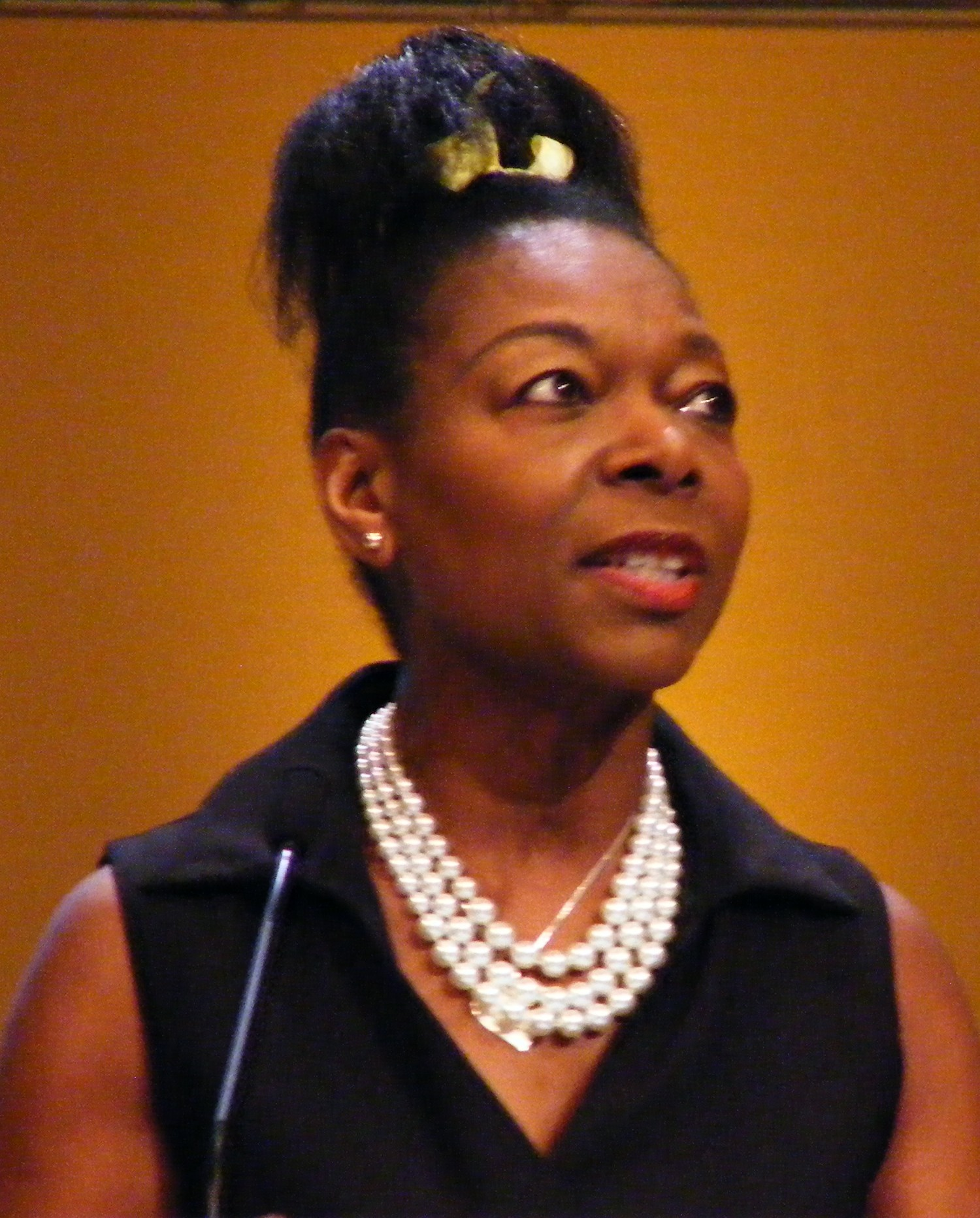 crop of Floella Benjamin from photo of her speaking at the Liberal Democrat Conference.